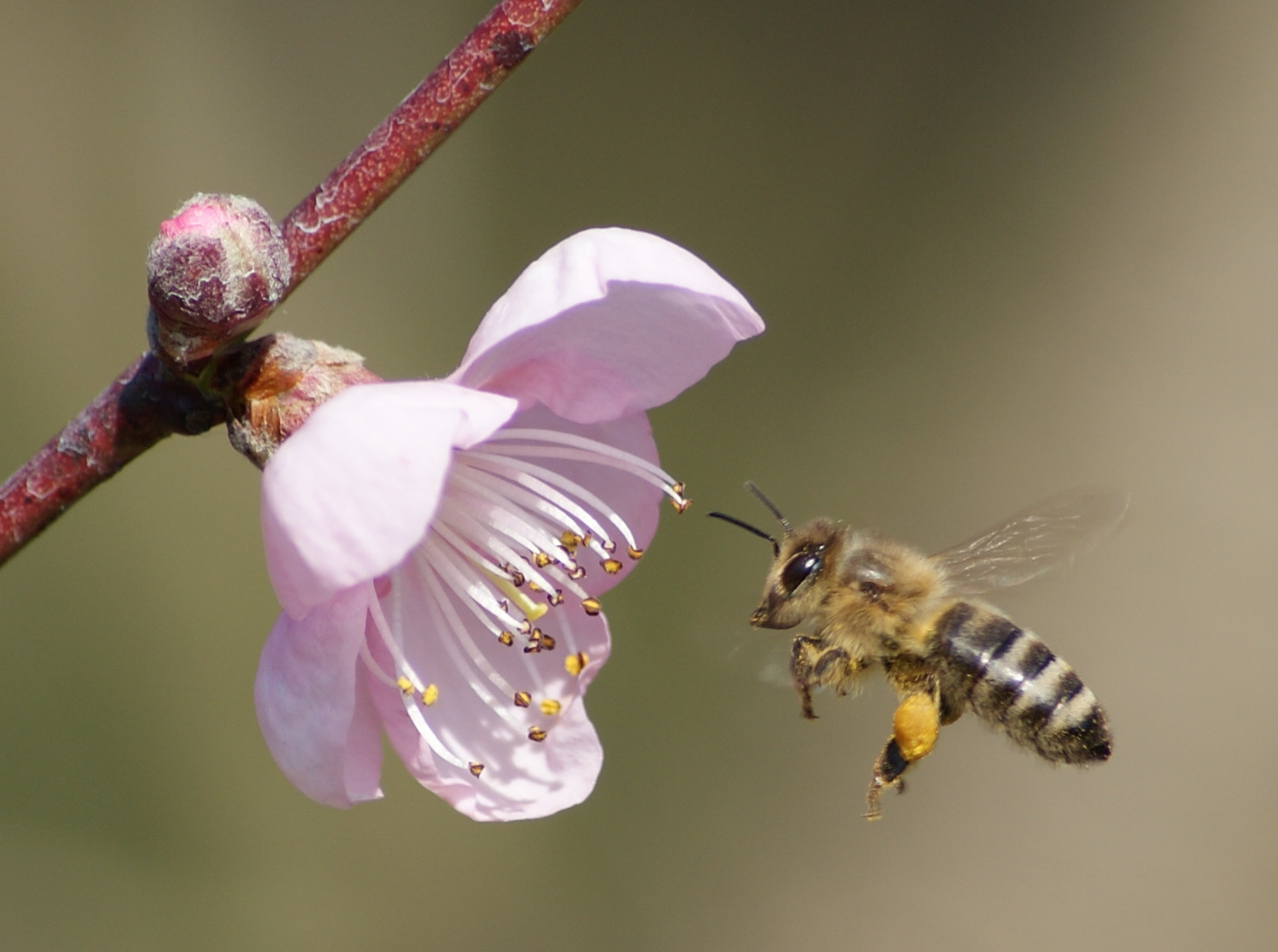 Barackvirág és a méh